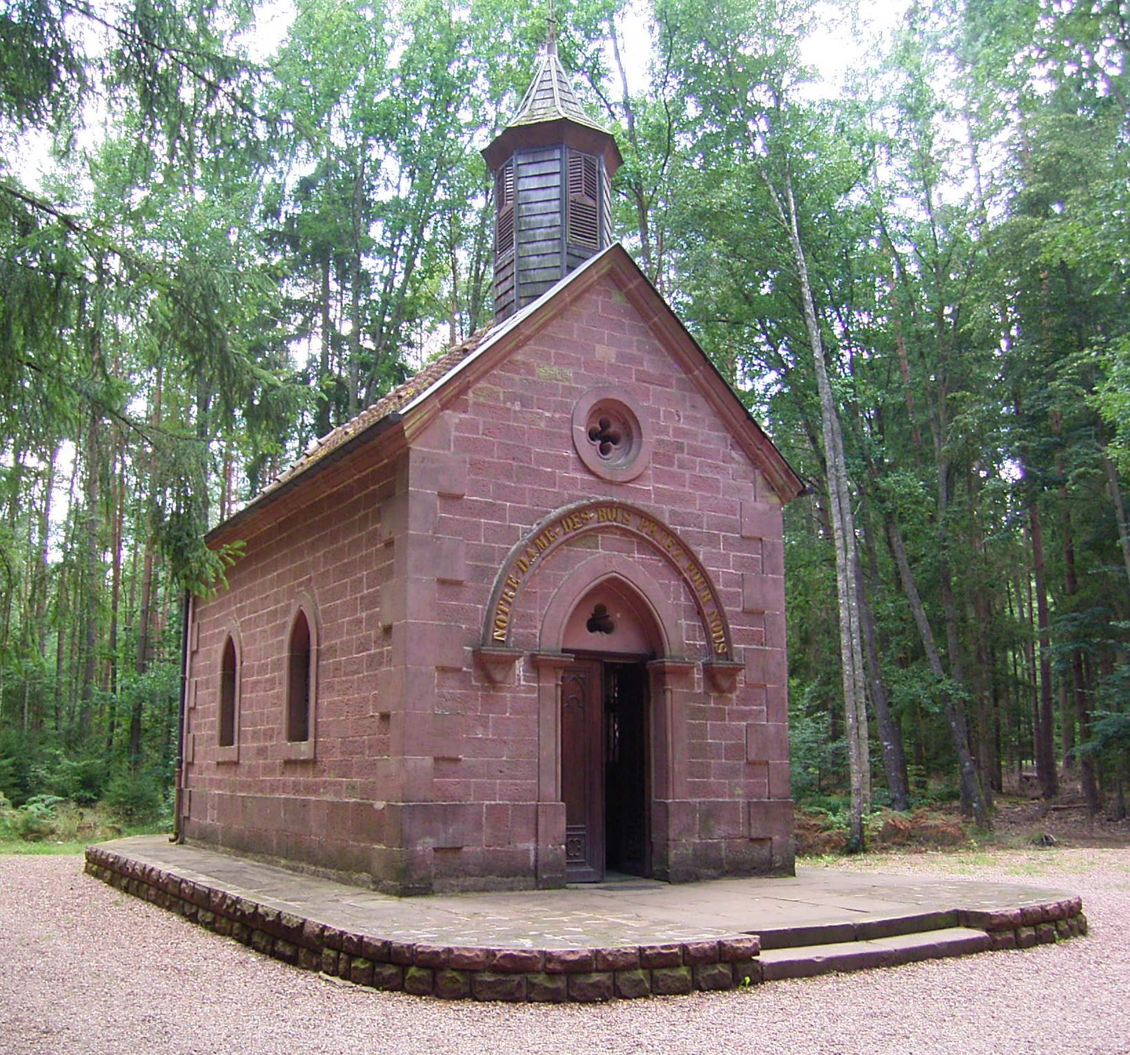 Notre-Dame-des-Bois chapel in Erbsenthal, next to Eguelshardt, Moselle, France